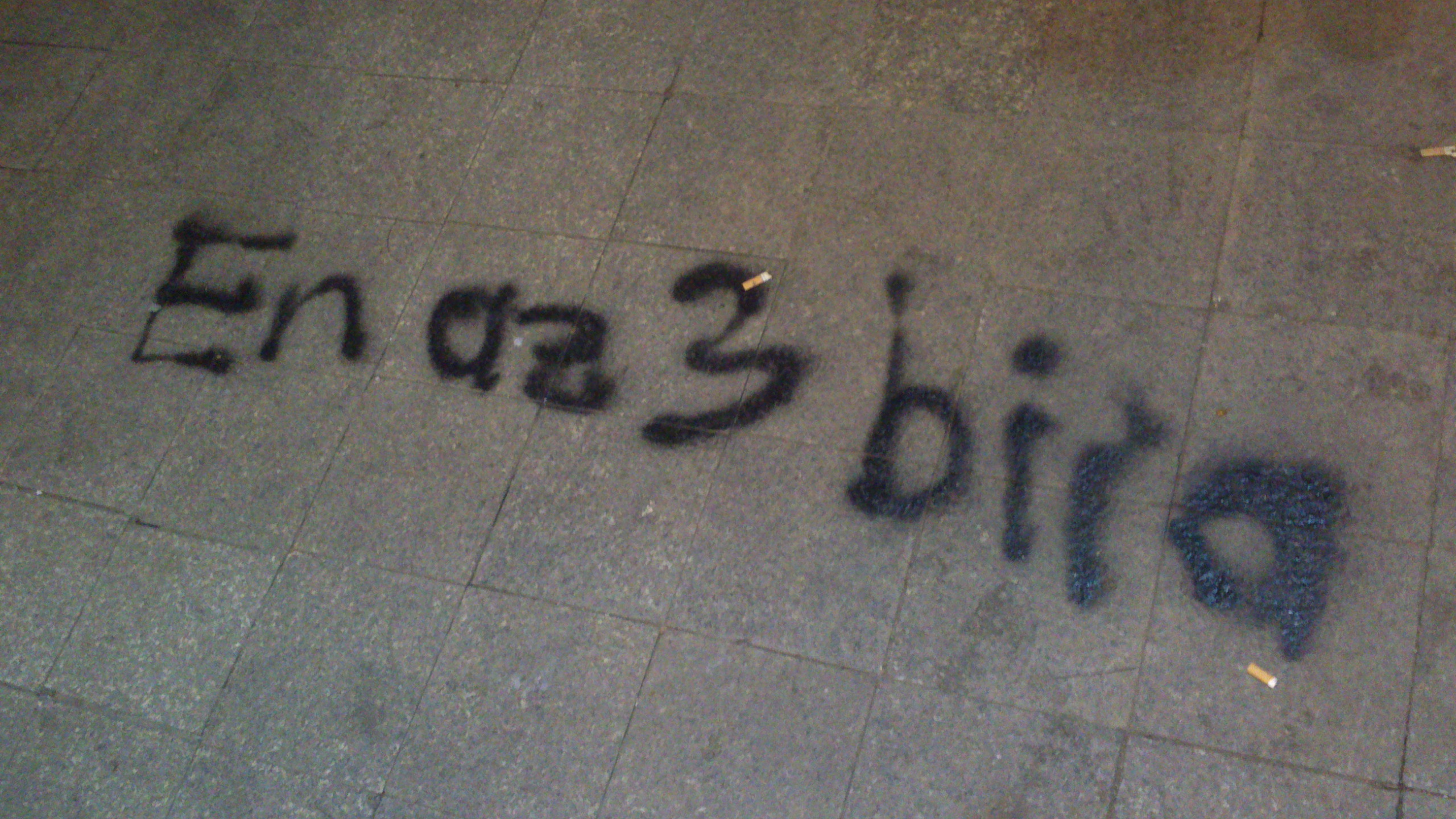 "At least 3 beers" shows government's child and alcohol policy